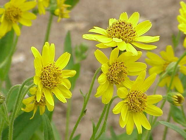 Species: Arnica longifolia Family: Asteraceae Image No. 1